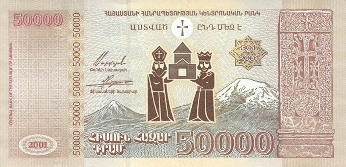 50000 dram 2001